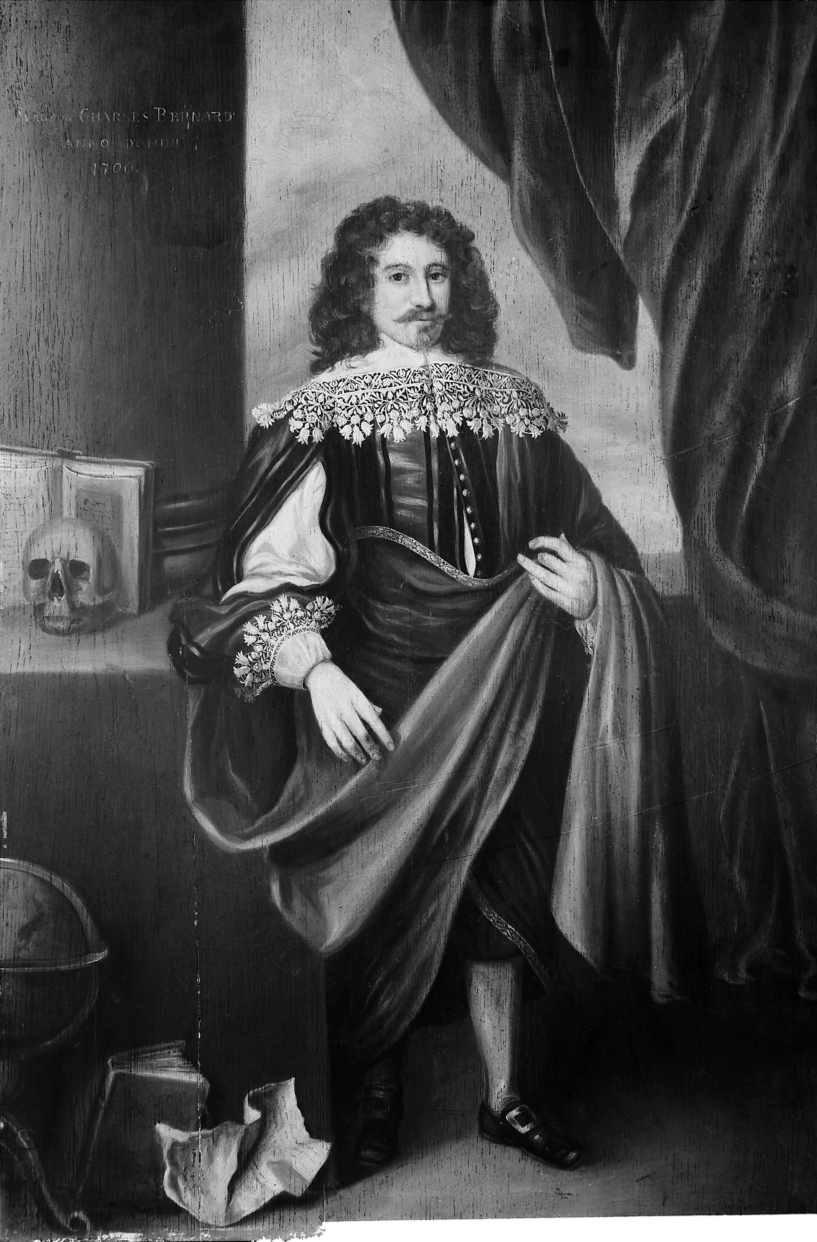 Portrait of Charles Bernard (1660-1711). Full length, standing Iconographic Collections Keywords: surgeons, 18th century; surgeons, 17th century; Charles Bernard